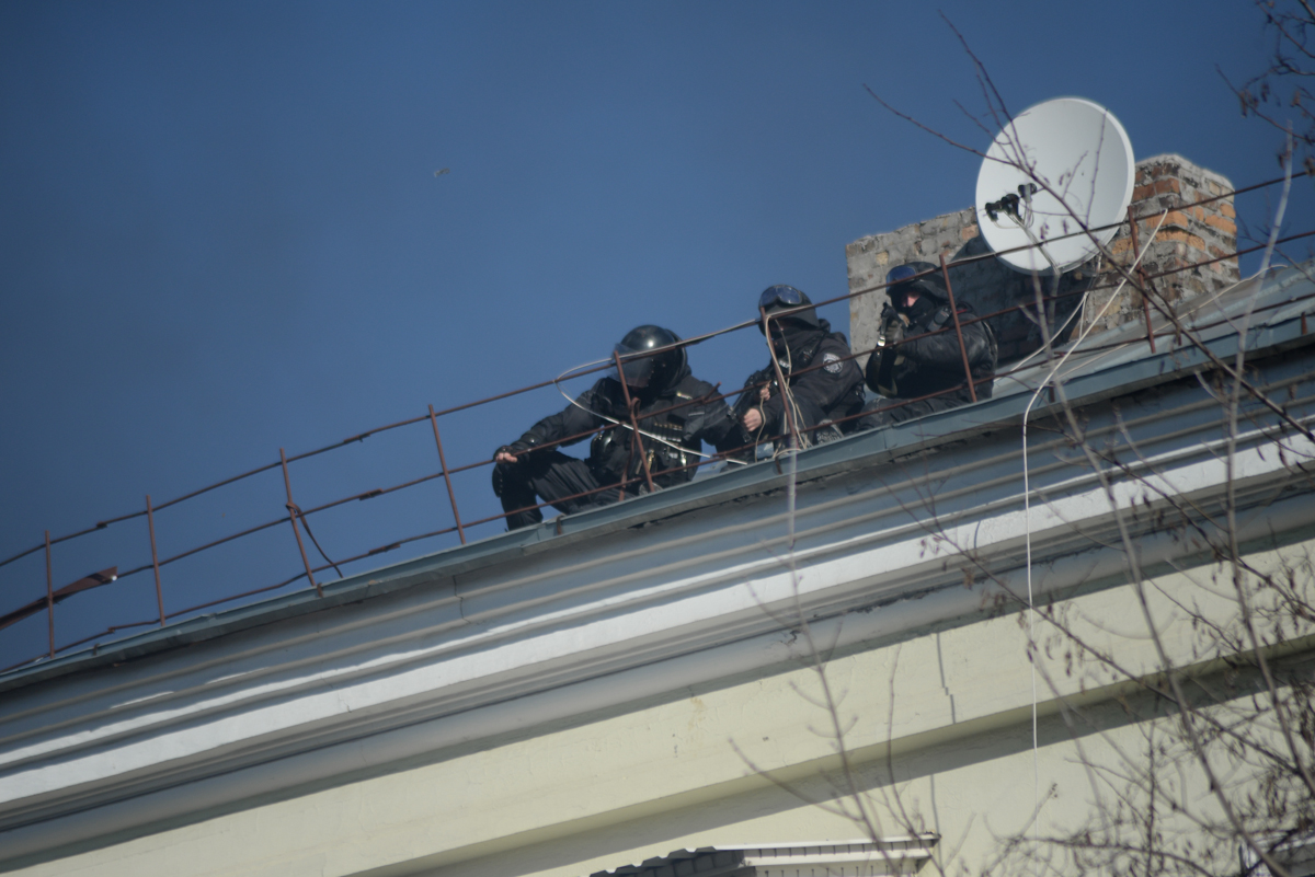 Snipers seen on the roof. Clashes in Ukraine, Kyiv. Events of February 18, 2014